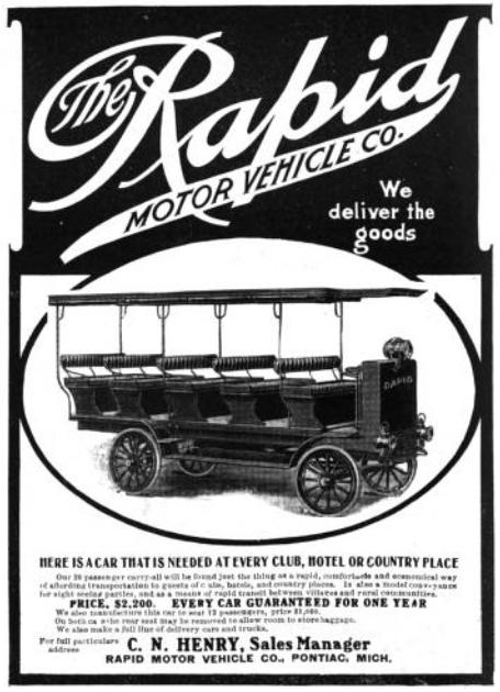 Rapid Motor Vehicle Company of Pontiac, Michigan - 1906